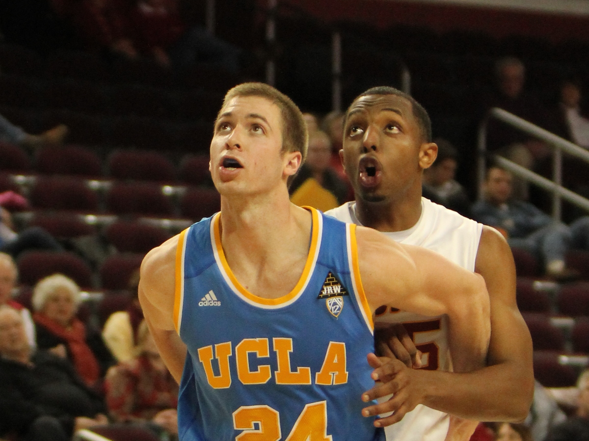 USC vs. UCLA Men's Basketball at Galen Center on Jan. 15, 2012. (Photos taken by James Santelli/Neon Tommy)